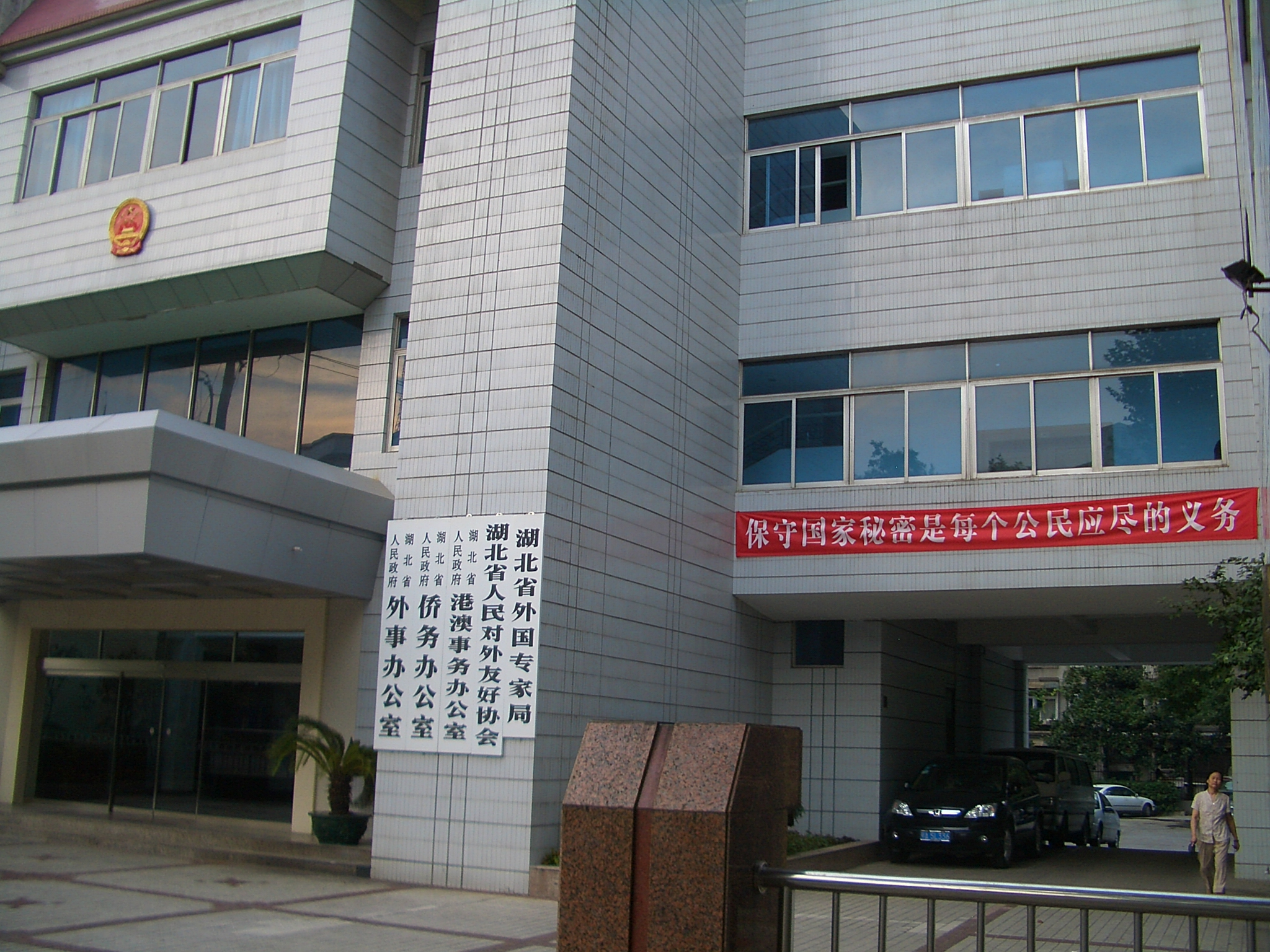 An office building in Wuhan (near Hongshan Square) housing a number of agencies of the Hubei Provincial government: Hubei Provincial Foreign Experts Office; Hubei People's Society for Friendship with Foreign Countries; Hubei People's Government's Office of Hong Kong and Macao Affairs; Hubei People's Government's Office of Huaqiao Affairs; Hubei People's Government's Office of Foreign Affairs. The red slogan reminds that "Protection of national secrets is a duty of every citizen" (保守国家秘密是每个公民应尽的义务).